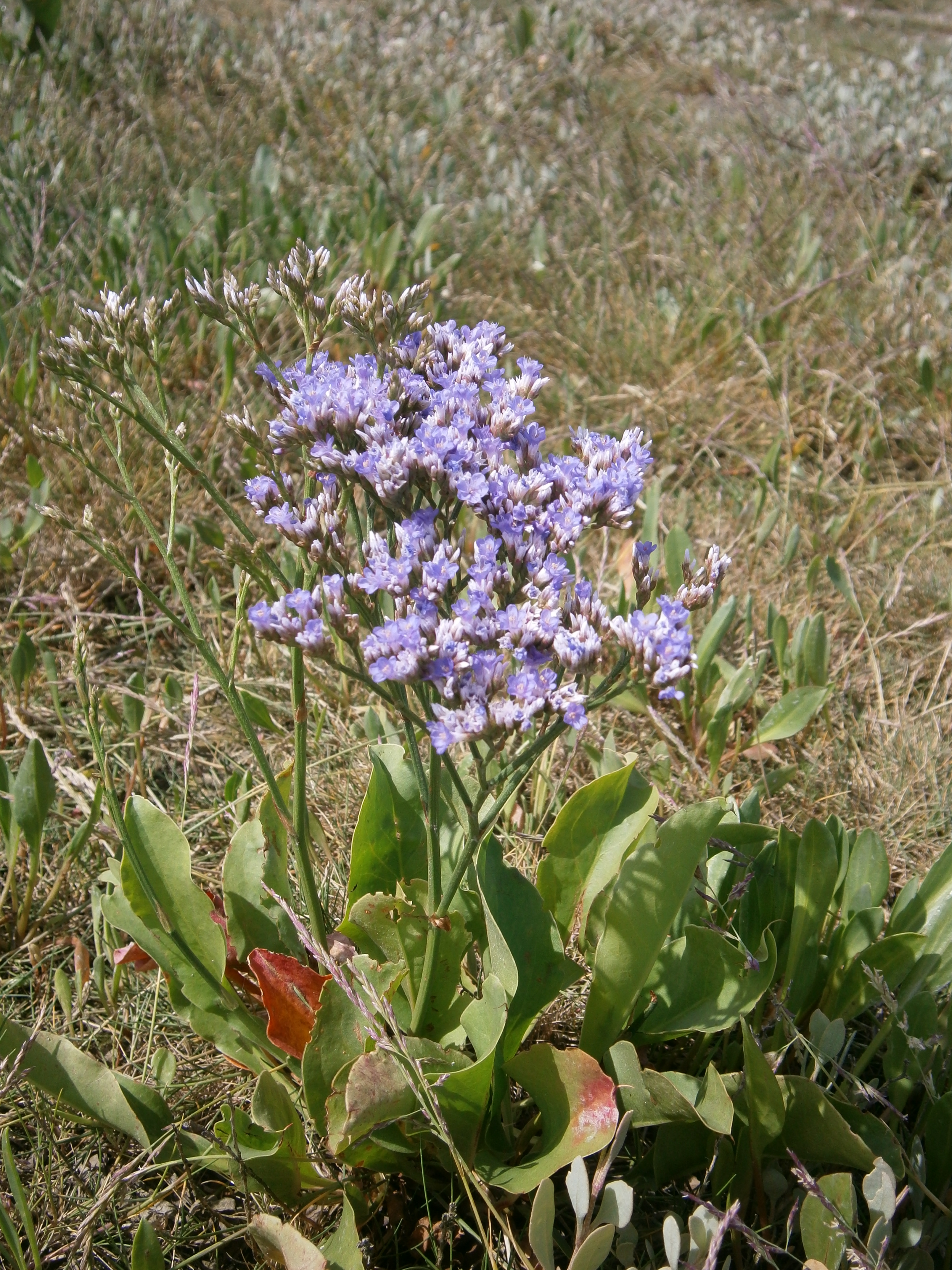 Limonium vulgare in the Zwin